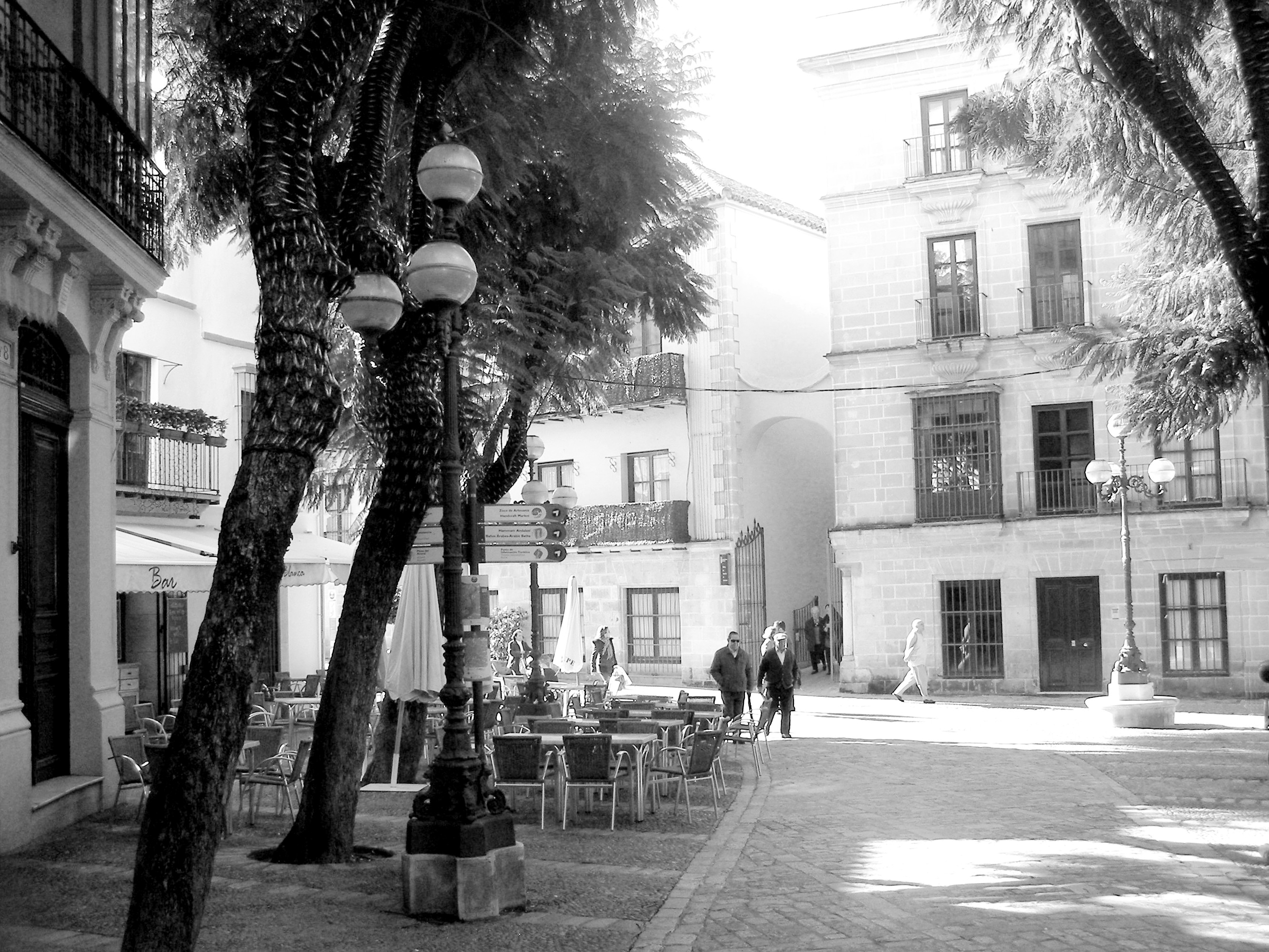 Grass Square black & white in Jerez de la Frontera (Andalusia, Jerez)